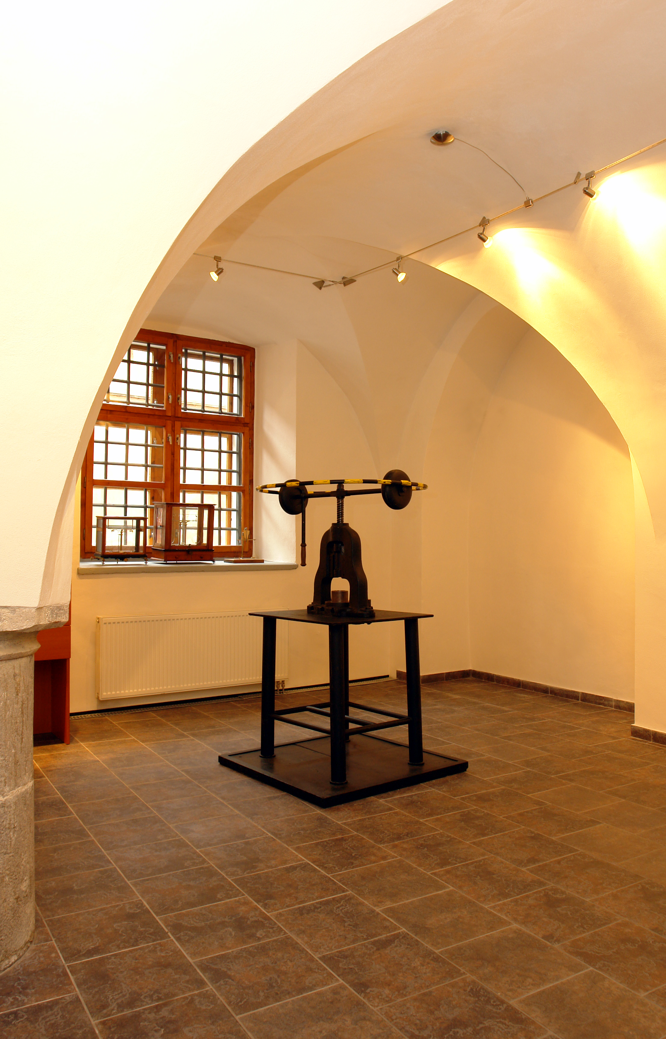 The Balancier is now part of the exhibition of Kremnica Mint.